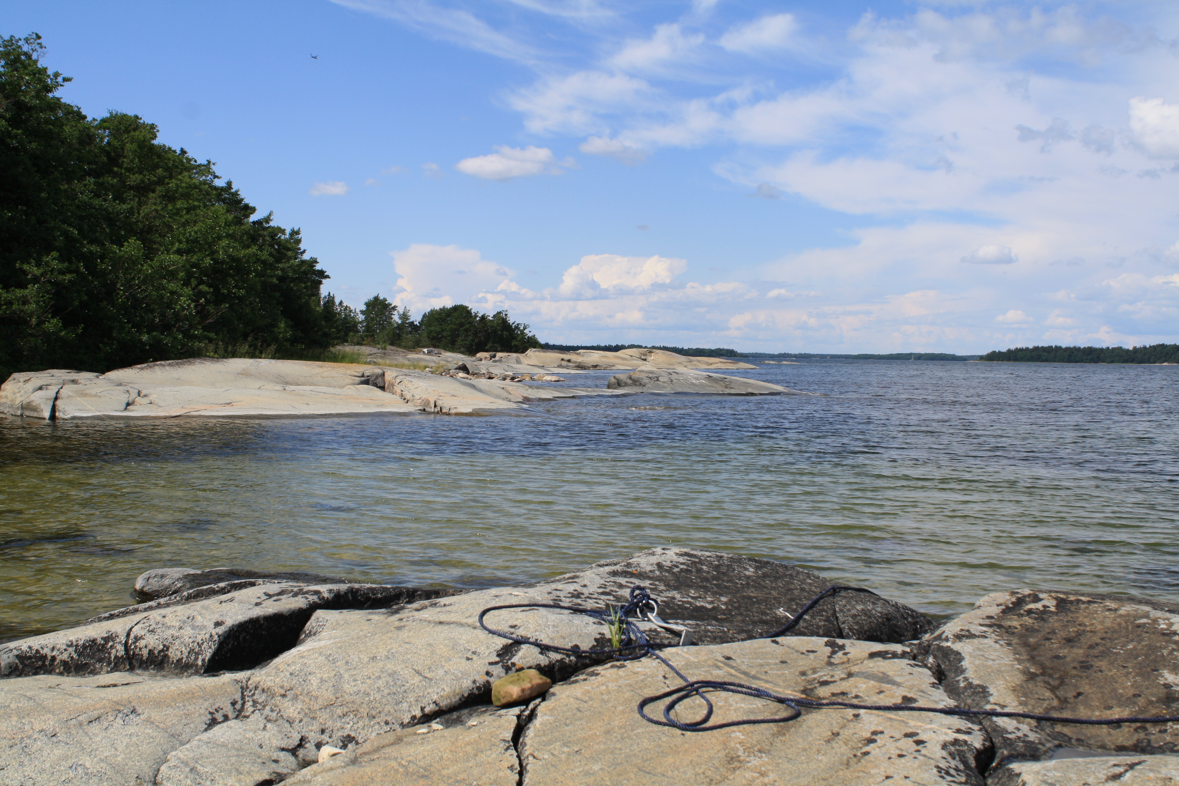 North side of Tyvö in september 2011.